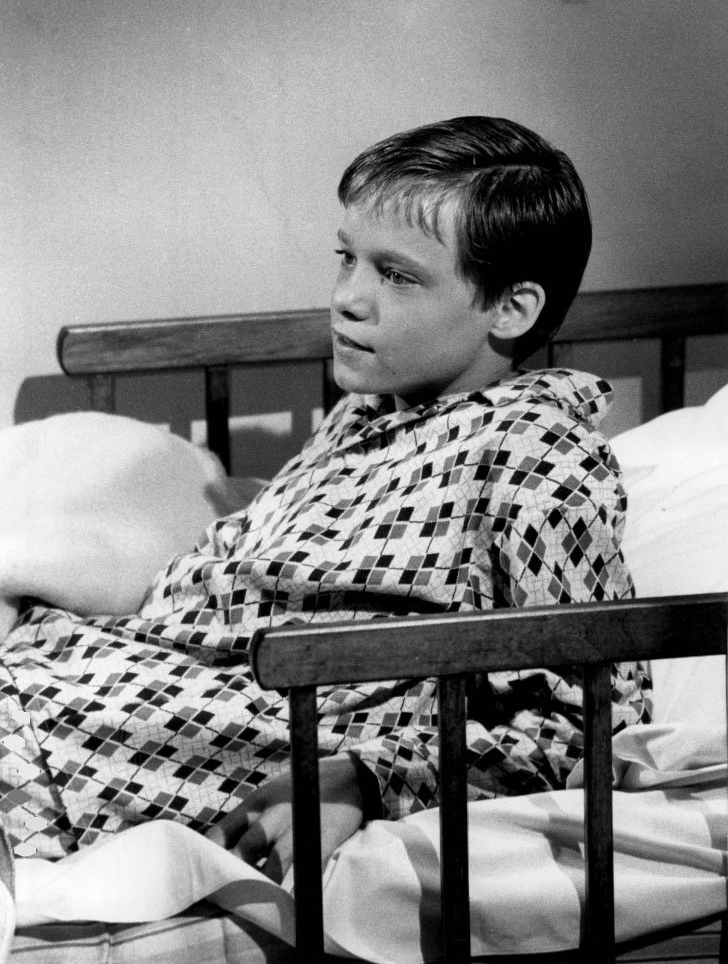 Publicity photo of child actor Lance Kerwin promoting his role in the repeat airing of the television film The Loneliest Runner, which first aired on the NBC network on December 20, 1976.